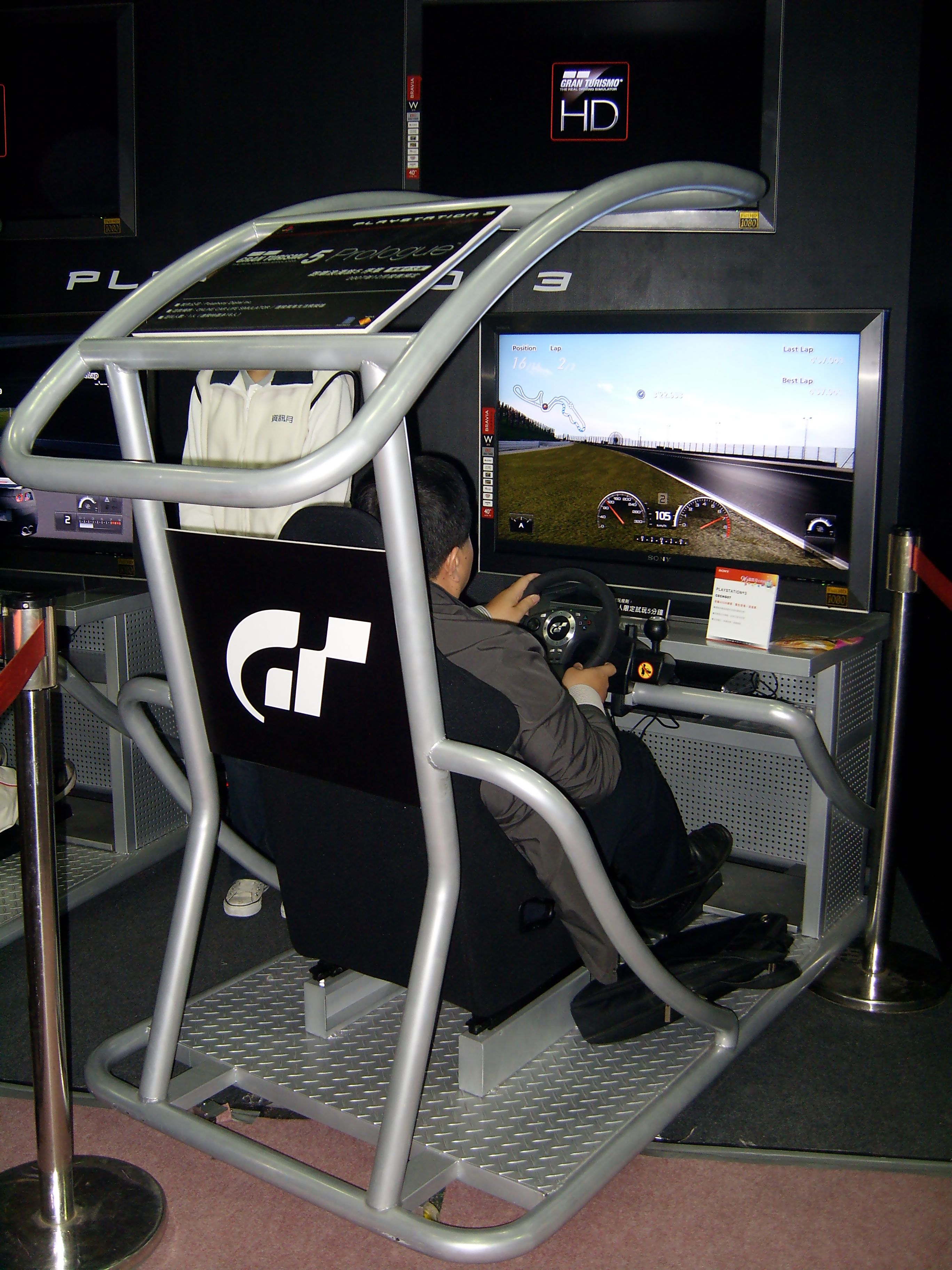 2007 Taipei IT Month: Sony PS3 GT Gaming Area @ TWTC Hall 3.